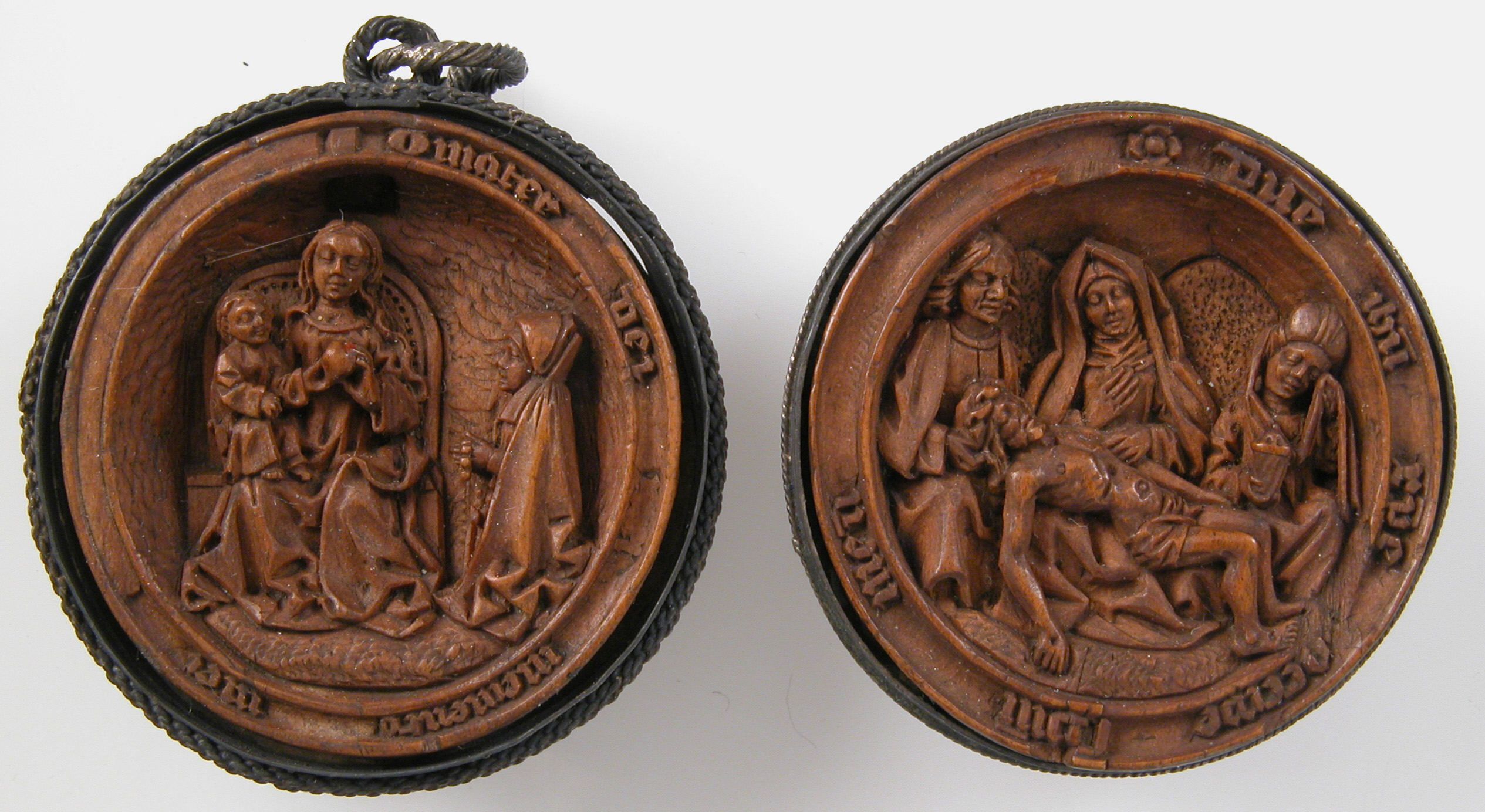 "Half of a Prayer Bead with the Lamentation", Boxwood and silver. Diamater 1 3/16 × 1/4 in. (3 × 0.6 cm). Metropolitan Museum of Art, gift of J. Pierpont Morgan, 1917